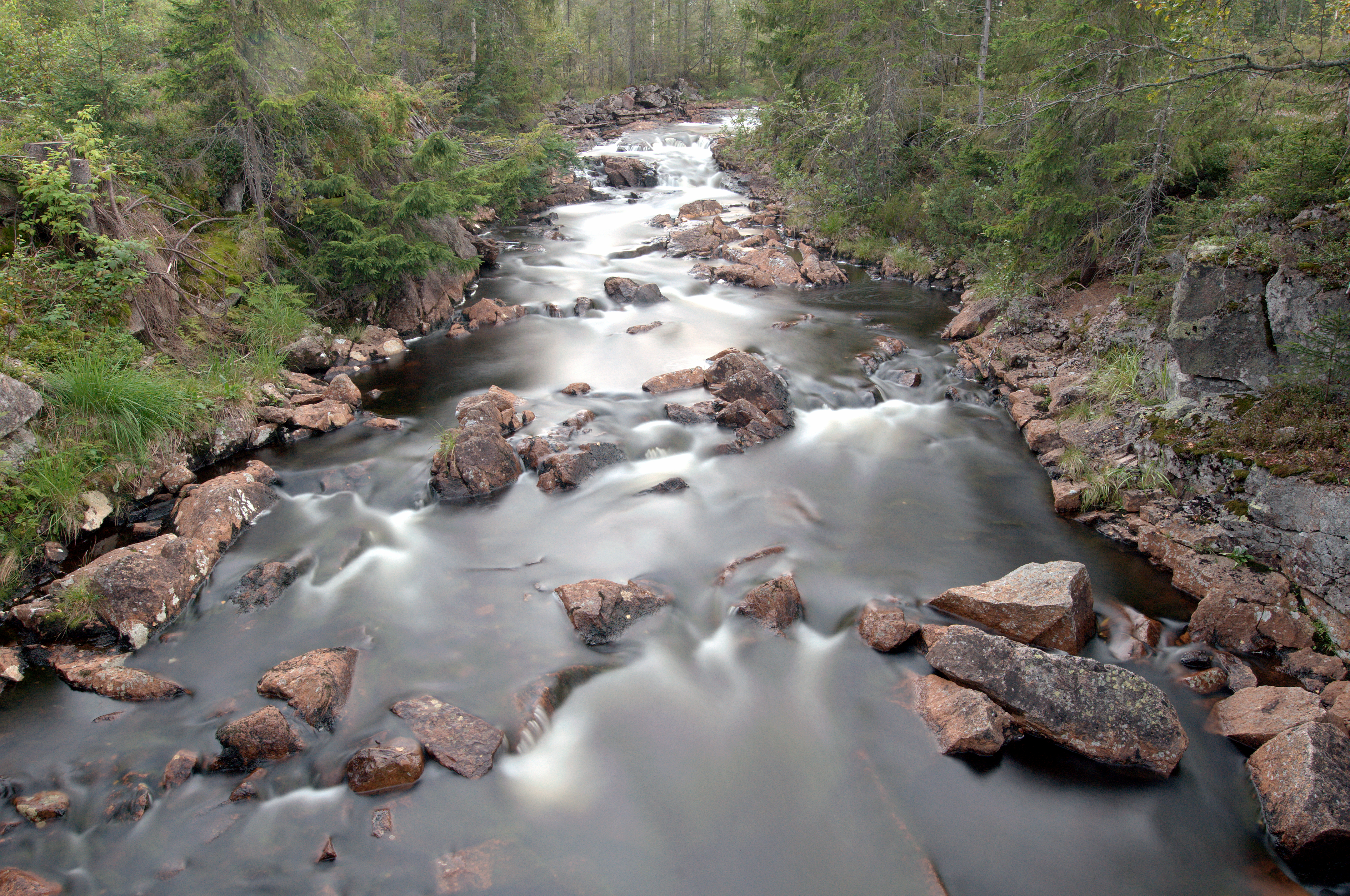 Rotua river in Romeriksåsene